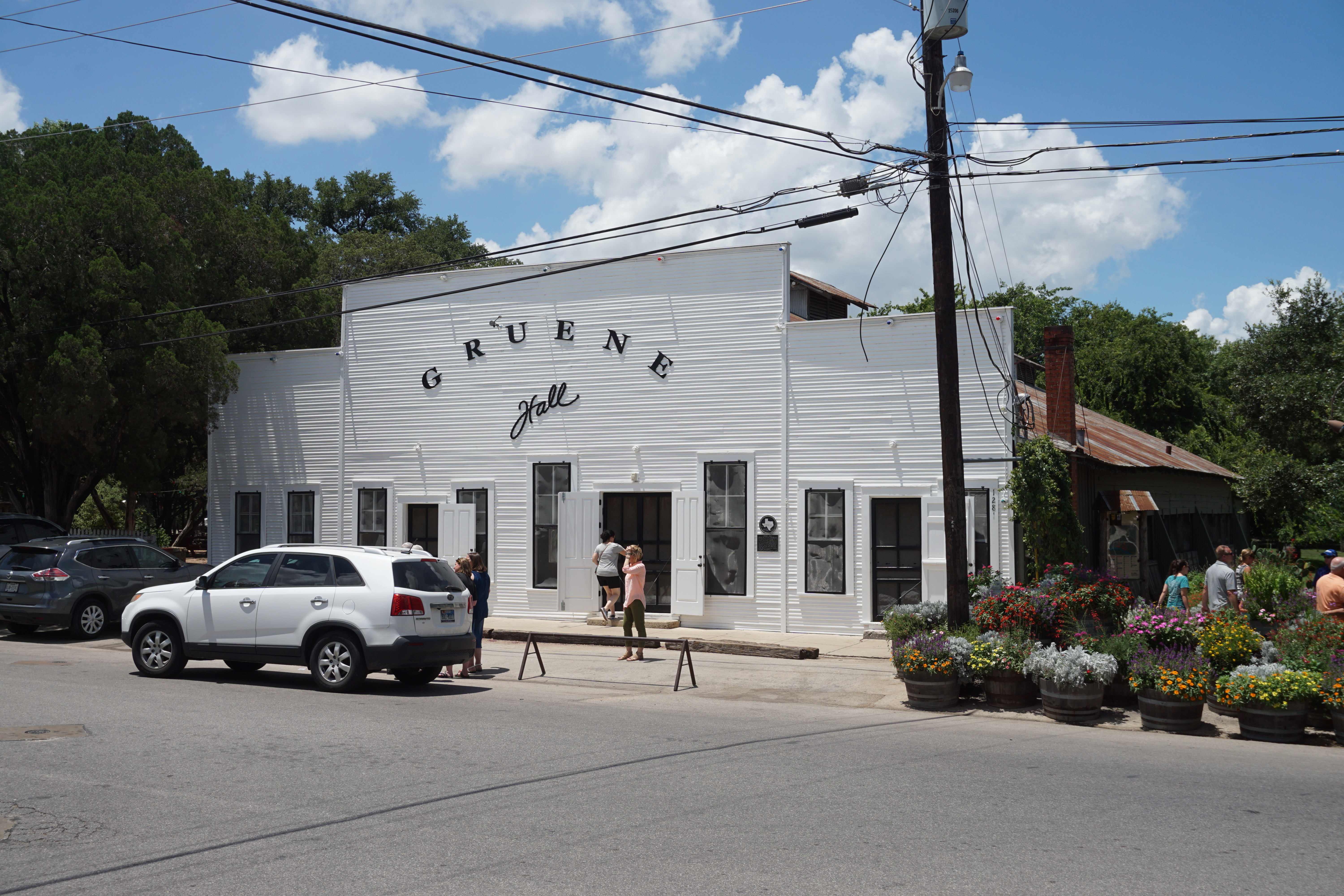 Gruene Hall in the Gruene district in New Braunfels, Texas (United States).